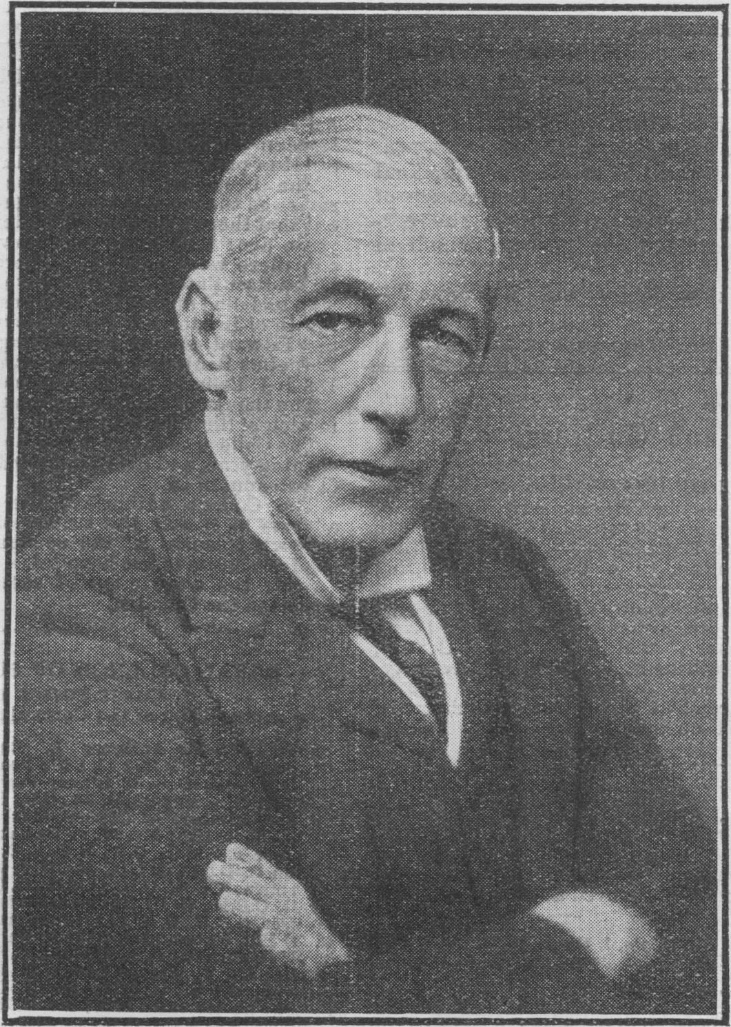 Photograph of Sir William Thorburn, pre 1923